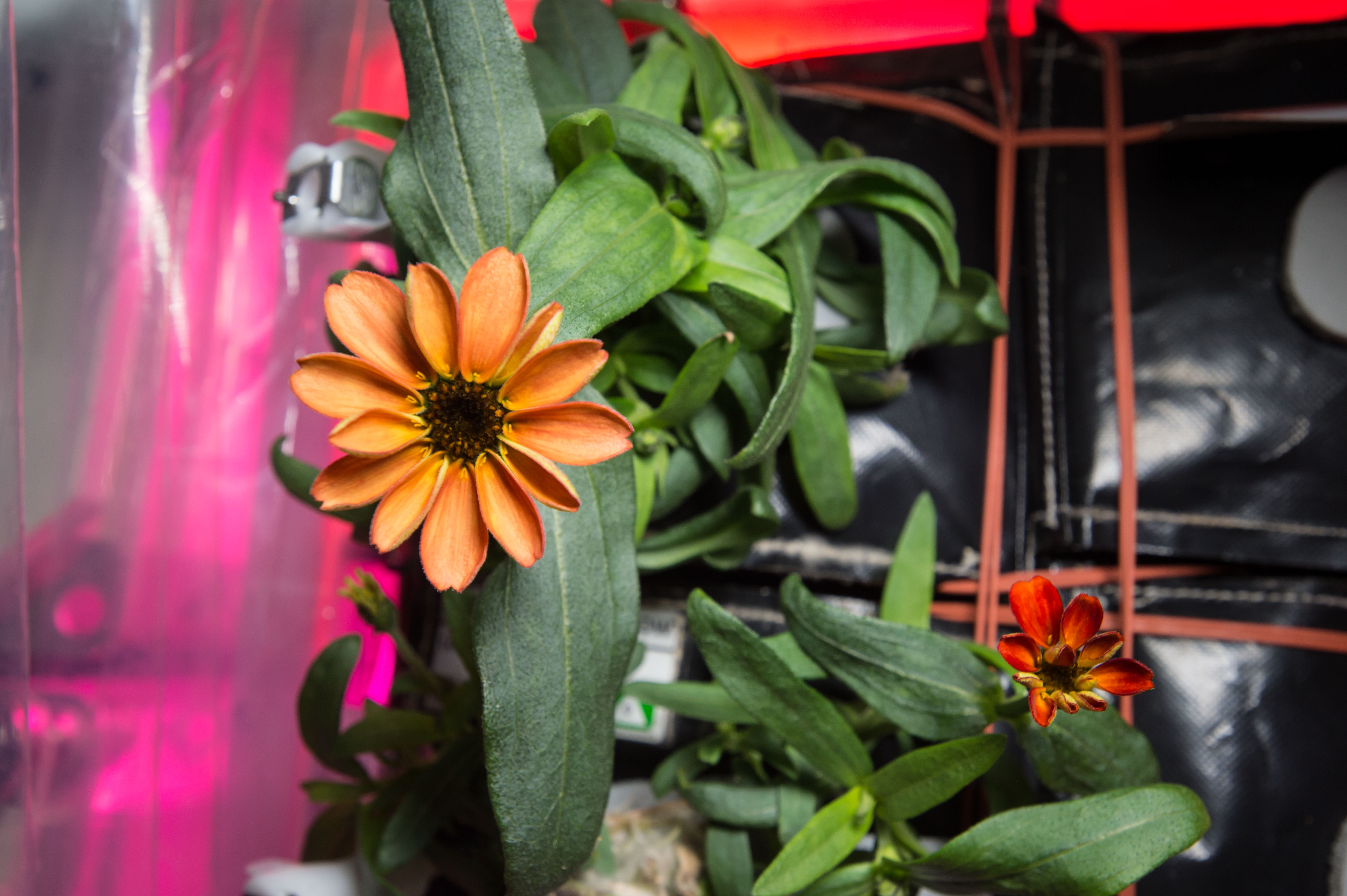 Yes, there are other life forms in space! #SpaceFlower #YearInSpace. Photos of a Zinnia flower grown inside the Veggie facility onboard the International Space Station. This flowering crop experiment began on Nov. 16, 2015, when NASA astronaut Kjell Lindgren activated the Veggie system and its rooting "pillows" containing zinnia seeds. The challenging process of growing the zinnias provided an exceptional opportunity for scientists back on Earth to better understand how plants grow in microgravity, and for astronauts to practice doing what they’ll be tasked with on a deep space mission: autonomous gardening. The first flowers grown from seed in space happened before Mir, on Salyut-6 in 1982. Russian and American scientists have been doing plant research in space since the late 1970's.